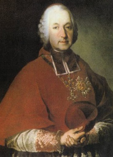 Portrait of Christoph Anton Migazzi (1714-1803)